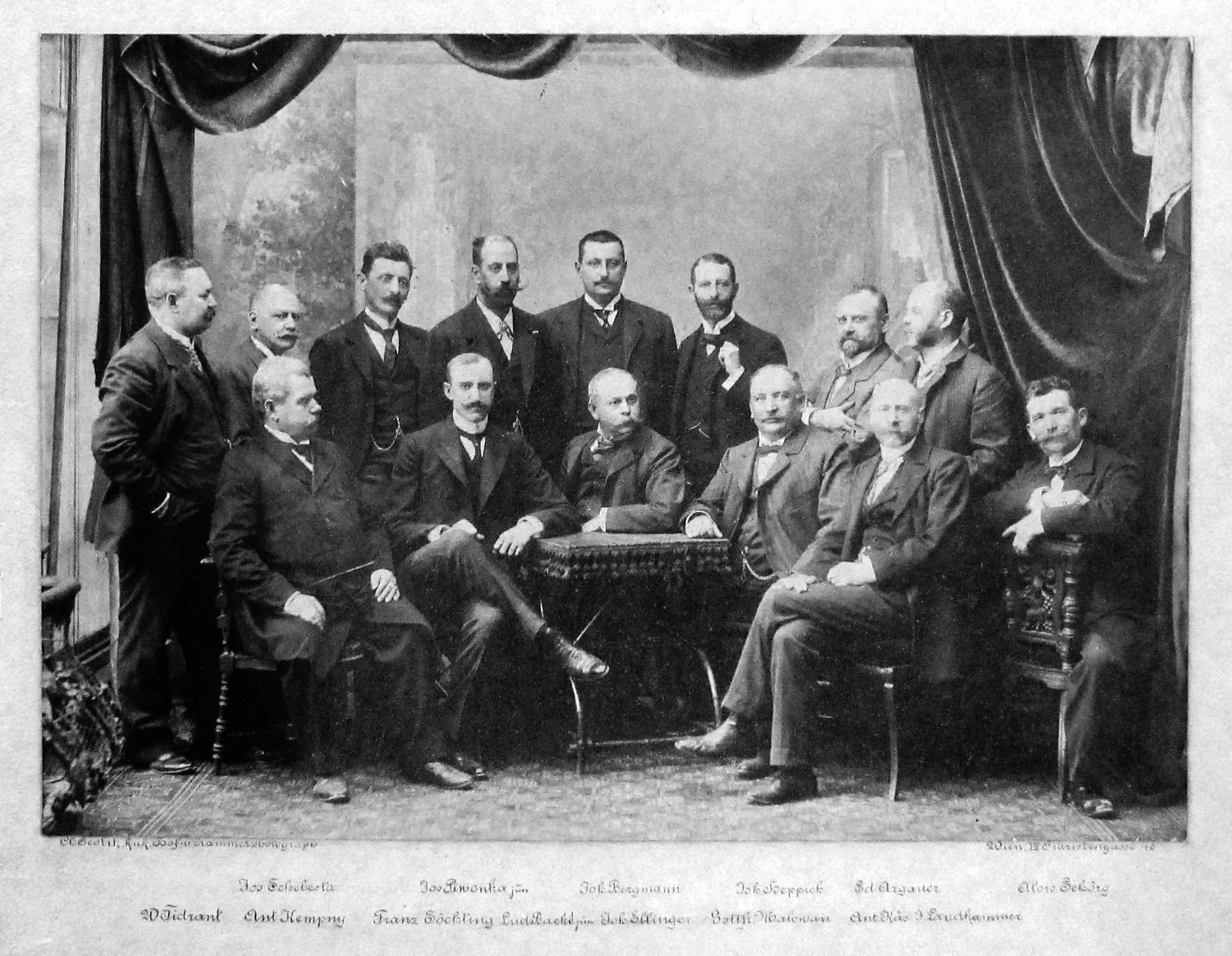 Gottfried Malowan and a group of gentlemen, probably other bespoke tailors. Image by studio of Charles Scolik, taken around 1900.